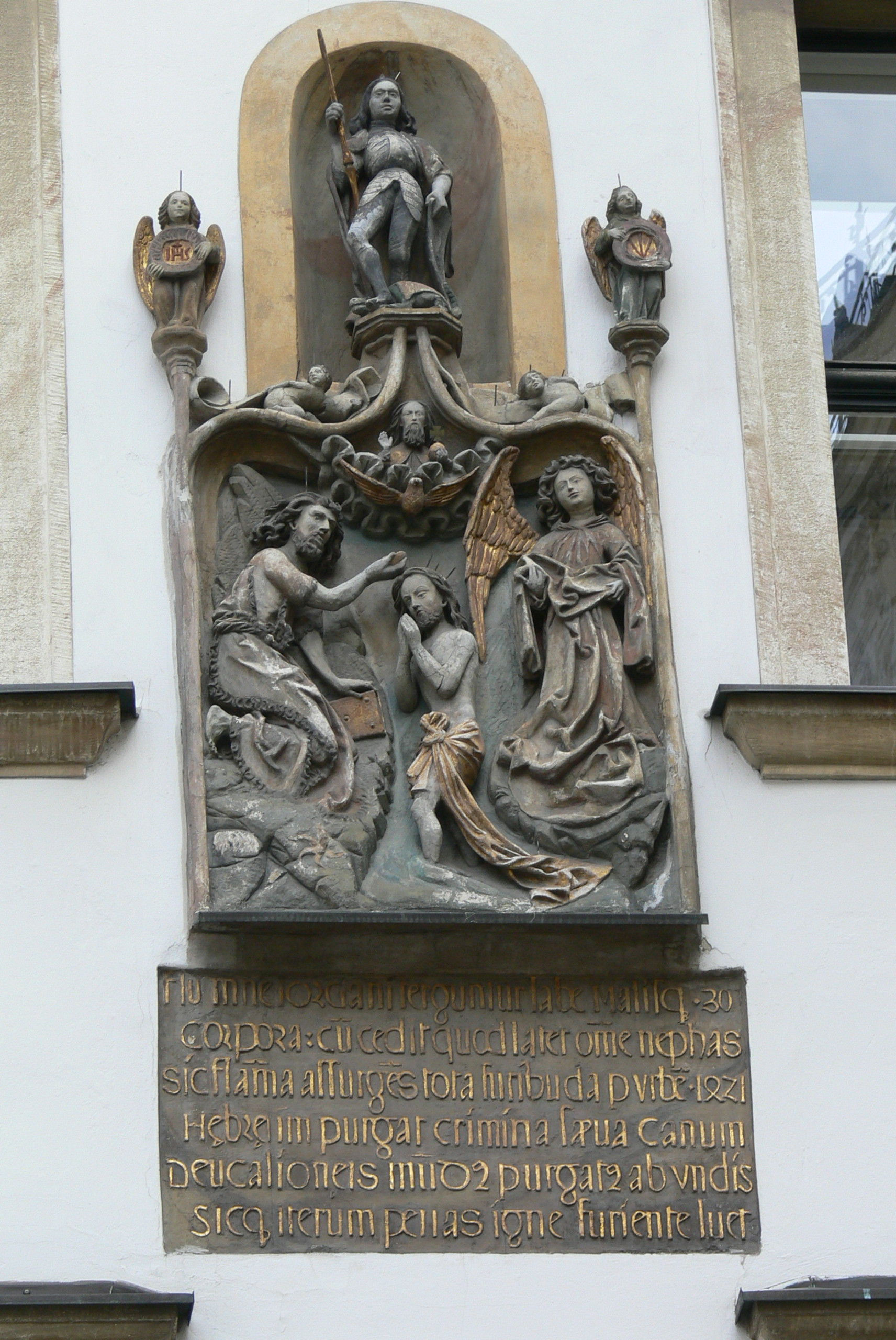 Judenplatz ( Jewish square ), Vienna. House of the "Great Jordan": Relief of the Baptism of Christ with antisemitic latin inscription in memory of the persecution of Jews in Vienna 1421.